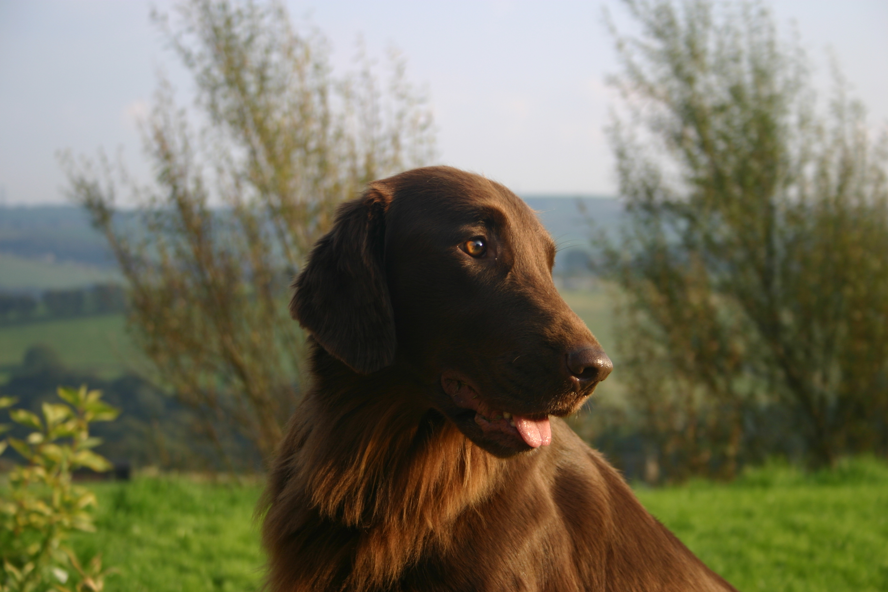 Portrait of a liver Flat-coater Retriever Bitch